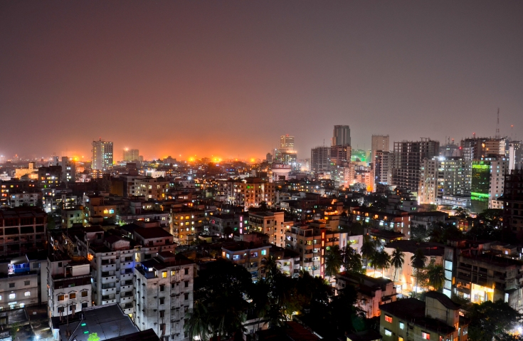 A night skyline of Dhaka ( Capital Of Bangladesh ) with major commercial area Motijhell on the right & residential areas on the left.